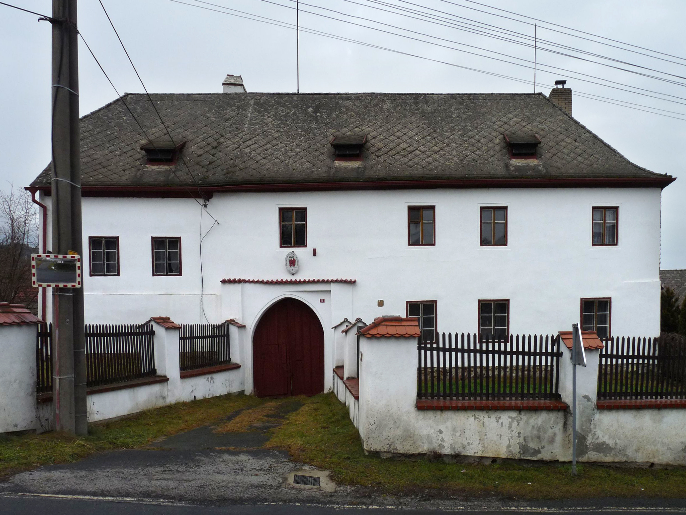 Rectory in the village of Petrovice u Sušice, Klatovy District, Plzeň Region, Czech Republic.